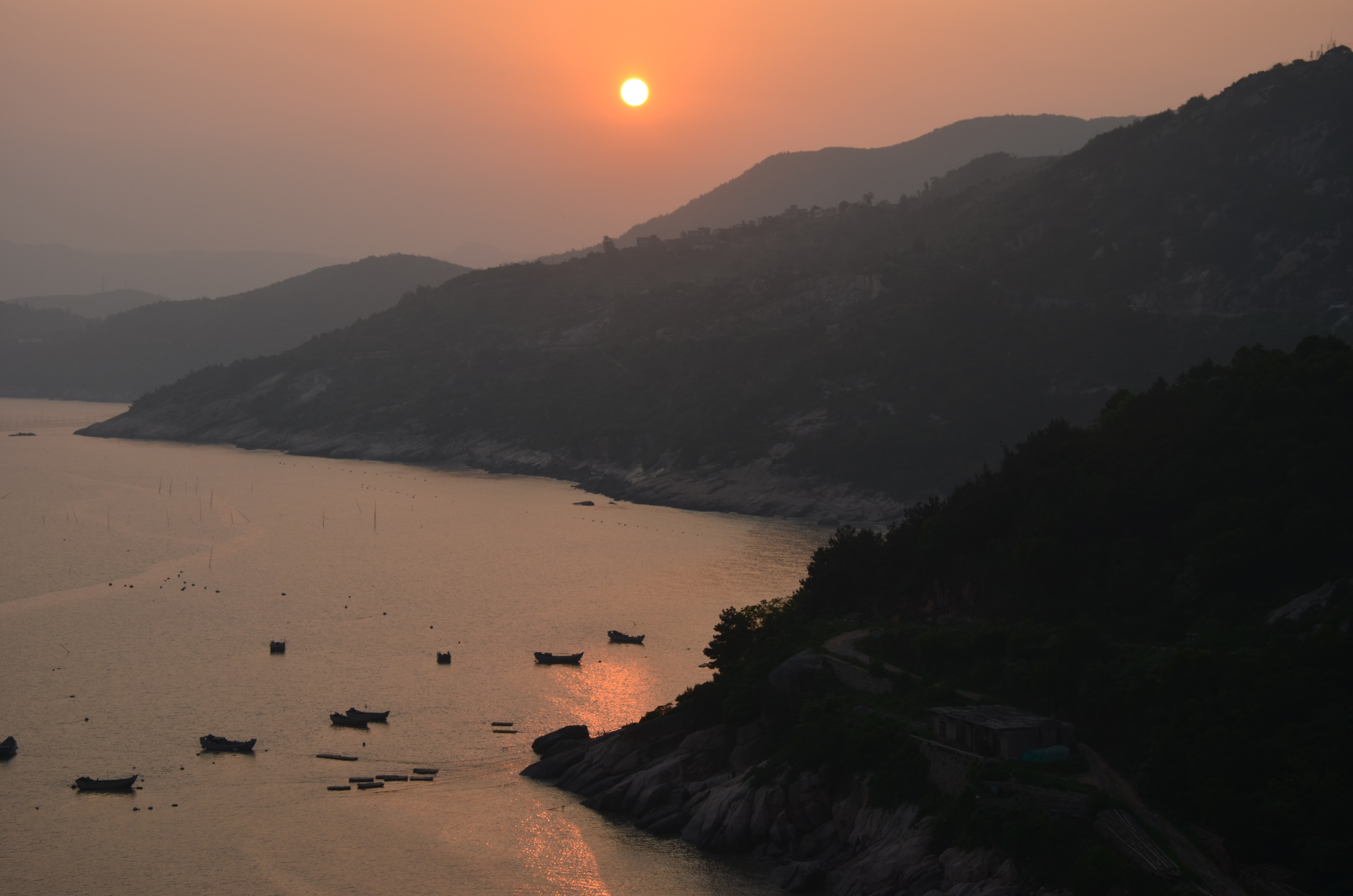 Sun set on beach of Xiapu County, Fujian, China.